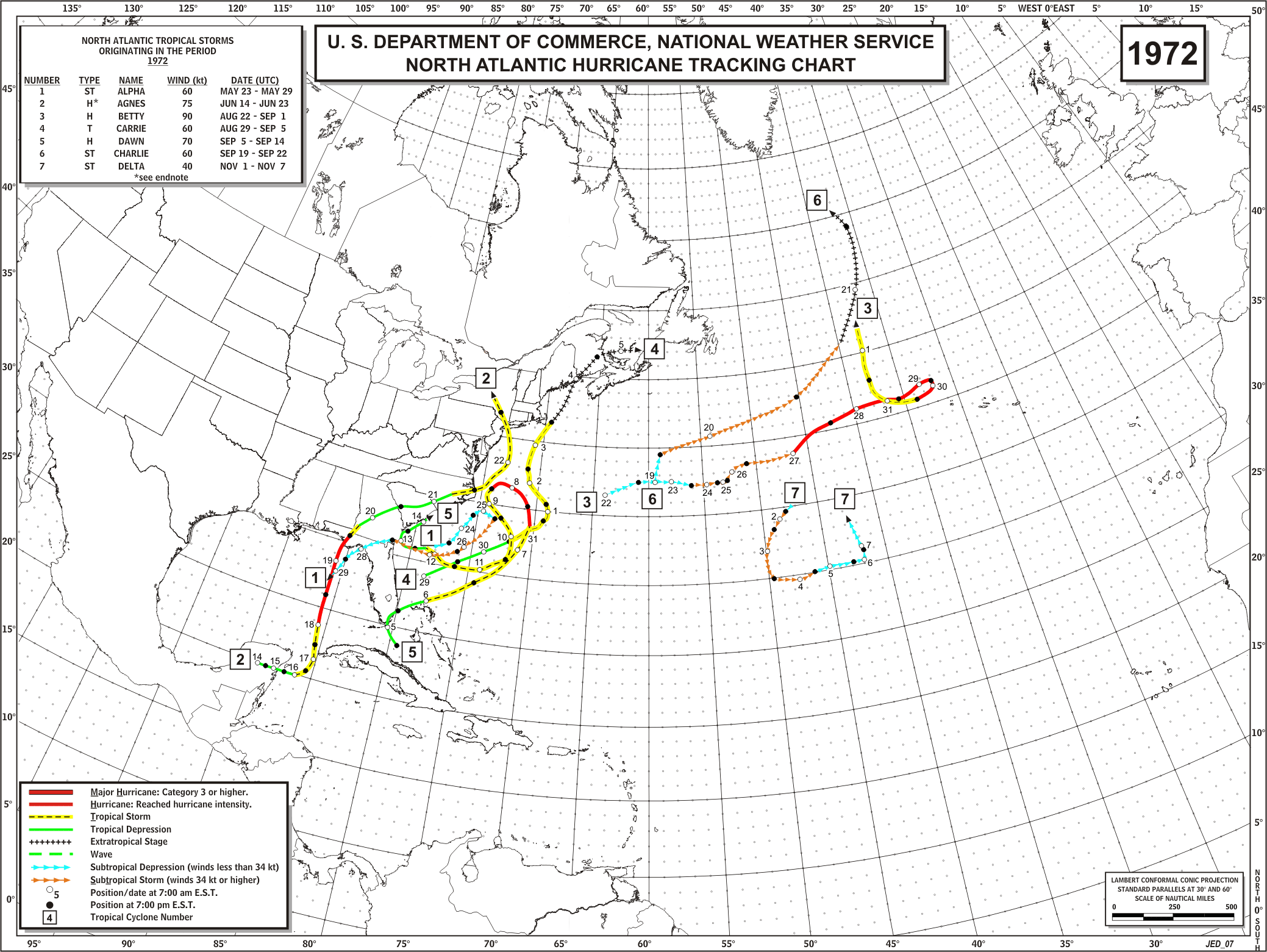 Season summary provided by NOAA of the 1972 Atlantic hurricane season.